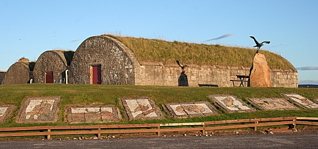 Tugnet Ice House The ice house dates from the early 19th century. Ice was cut from the River Spey in winter and stored here inside the thick walls. In summer it was used to pack salmon to keep it fresh on its way to the markets in the south. The mosaics on local themes were created by pupils of Milne's High School in Fochabers using pebbles from the shingle banks.